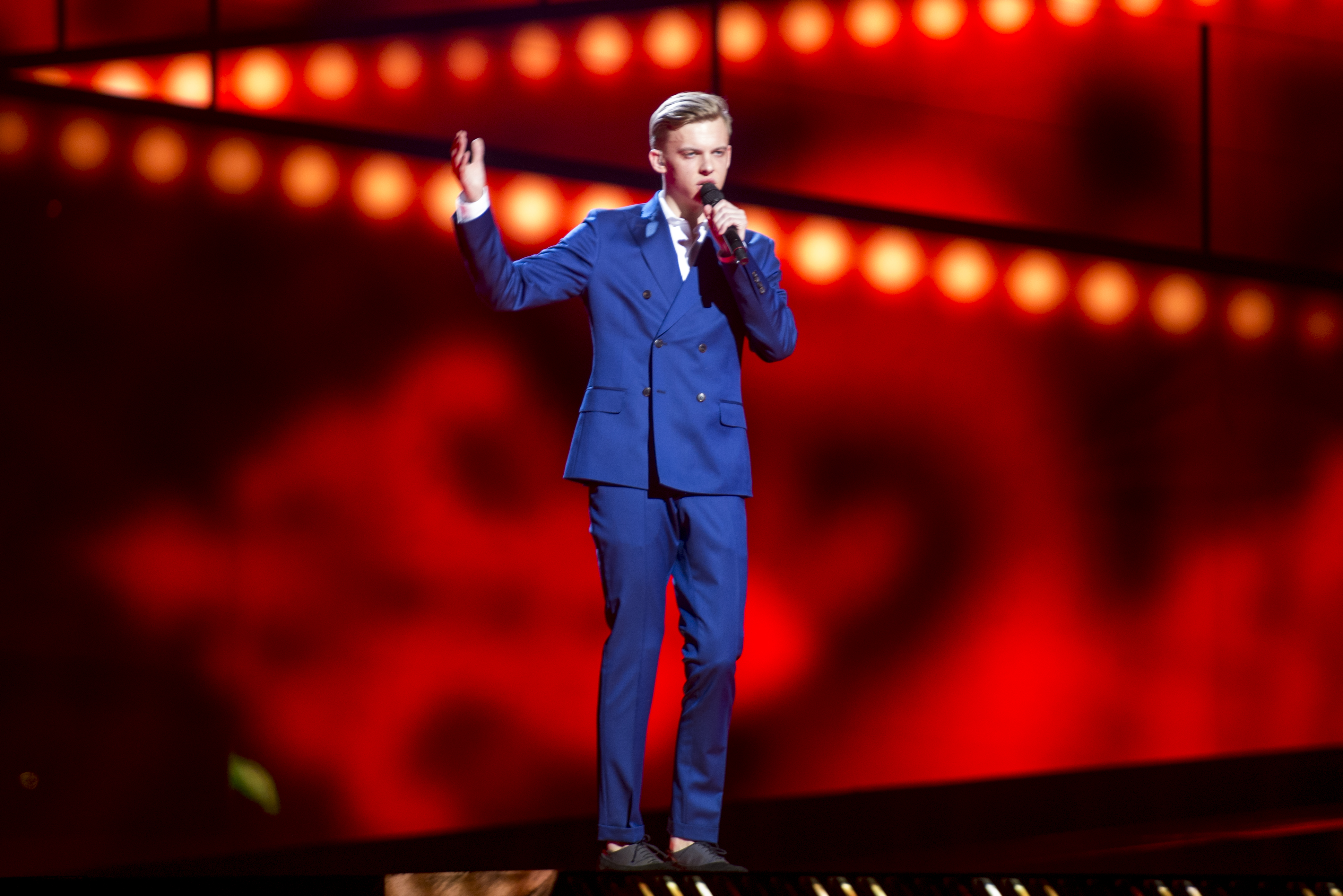 Jüri Pootsmann representing Estonia with the song "Play" during a rehearsal before the first semi final of the Eurovision Song Contest 2016 in Stockholm. (Help translate this text)